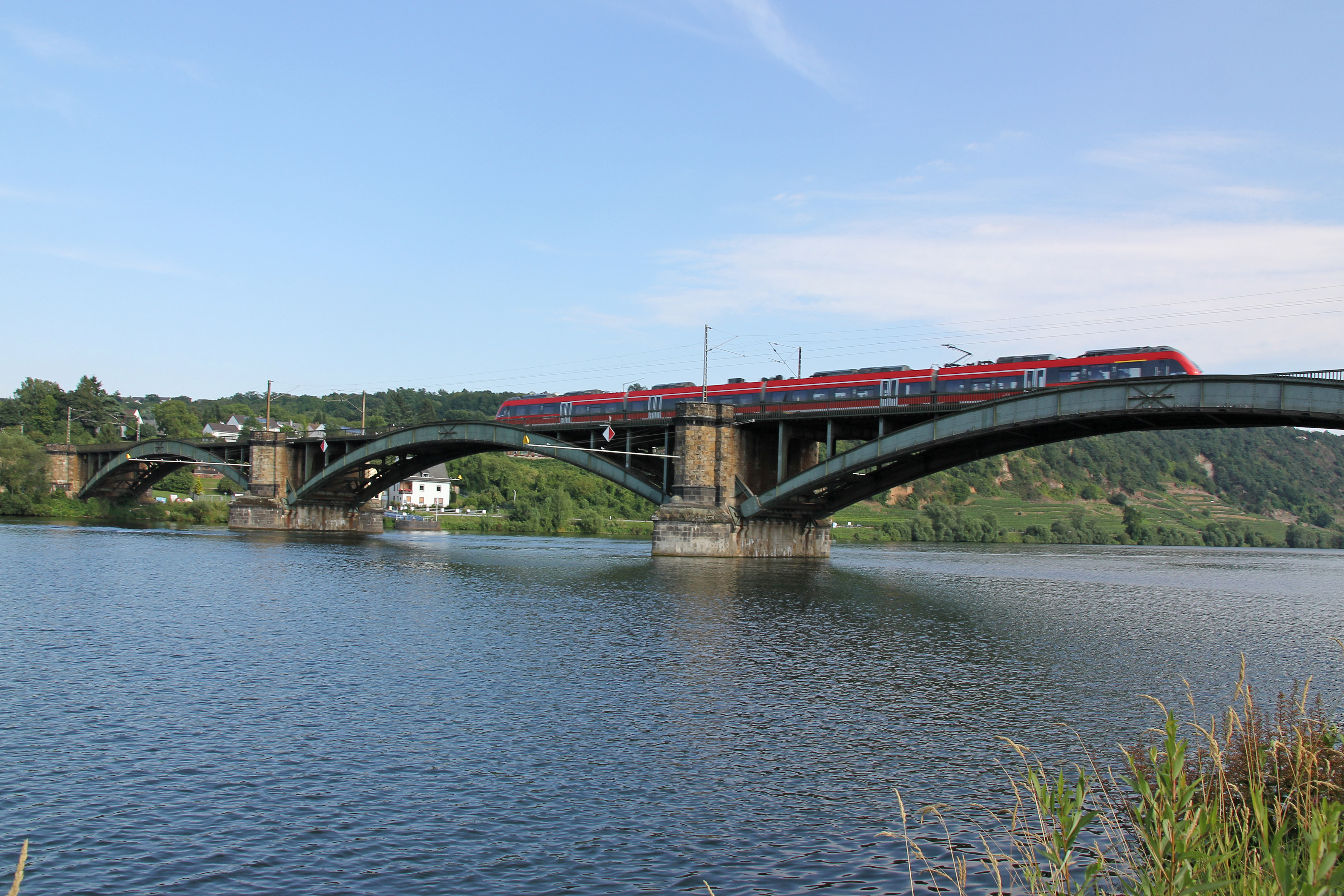 Railway bridge in Koblenz